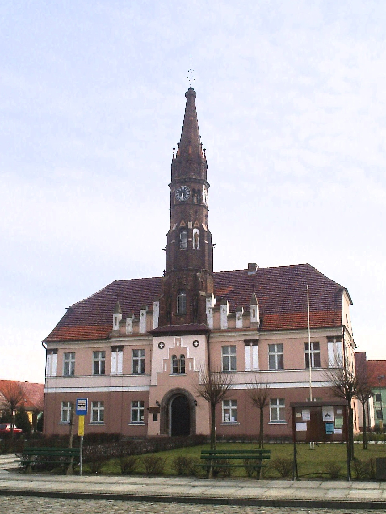 Town halls in Sarnowa, Poland